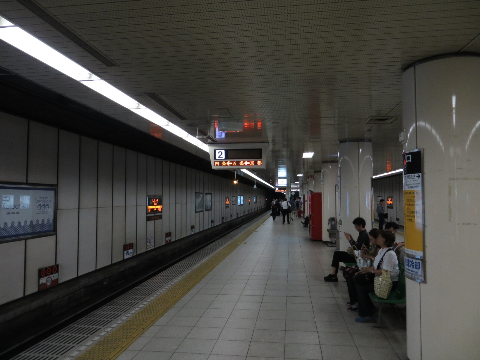 Platoform from Shijō Station(K09), Karasuma Line.